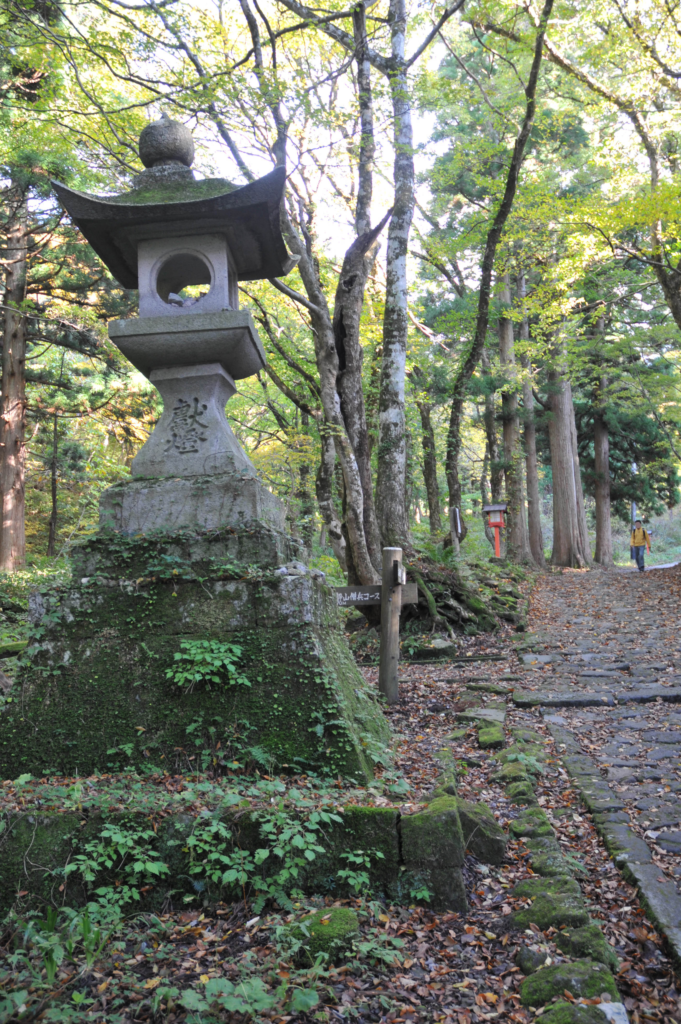 stone lantern basket and approach to Okunomiya